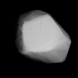 3D convex shape model of 928 Hildrun, computed using light curve inversion techniques. J. Hanuš, J. Ďurech, M. Brož, B. D. Warner (June 2011). "A study of asteroid pole-latitude distribution based on an extended set of shape models derived by the lightcurve inversion method". Astronomy and Astrophysics 530: A134. ISSN 0004-6361. arXiv